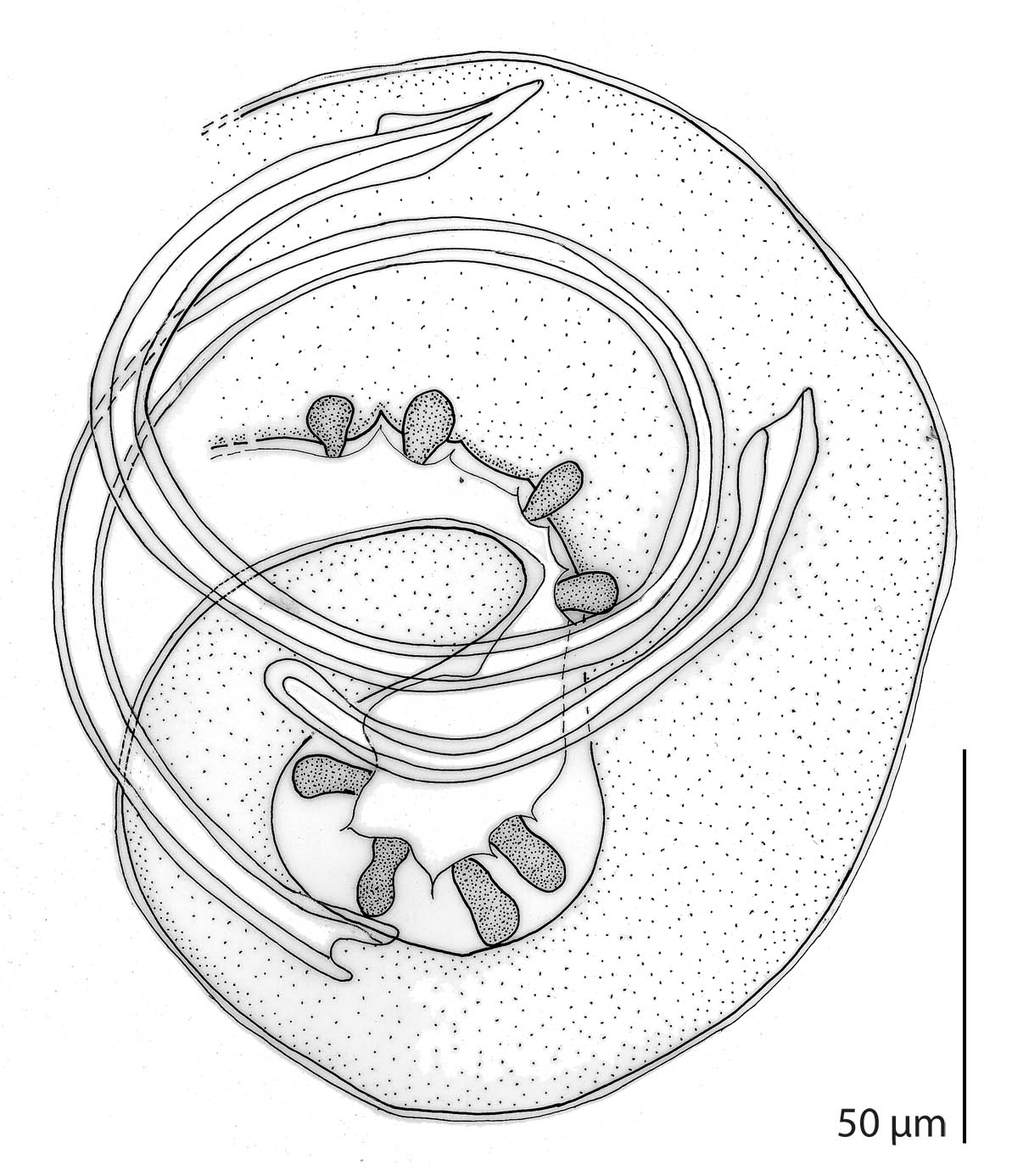 Moravecnema segonzaci Justine, Cassone & Petter, 2002 (Nematoda, Cystidicolidae), a parasite of the deep-sea fish Pachychara thermophilum from the Mid-atlantic Ridge. Male holotype, posterior end, lateral view. Original drawing by Jean-Lou Justine. Species described in the article: Justine, J.-L, Cassone, J. & Petter, A, 2002: Moravecnema segonzaci gen. et sp. n. (Nematoda: Cystidicolidae) from Pachycara thermophilum (Zoarcidae), a deep-sea hydrothermal vent fish from the Mid-Atlantic Ridge. Folia Parasitologica, 49, 299-303. Full PDF]